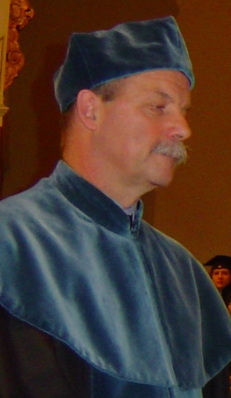 Prof Zbigniew Pilarczyk - polish historian